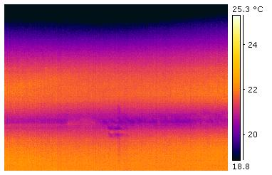 This thermograph was taken on July 18 just after midnight. The air temperature is 25 degrees Celsius and the Dew point was indicated at 24 Degrees. However the temperature of the air is not relevant in infrared radiation. The warm air directly above the water indicates the formation of dew in the air which releases heat and warms the air close to the surface. This is a normal pattern in infrared in a condensation situation. However please note that the horizon above the surface air is cooler and this will be the direction of thermal flow of the Infrared Radiation as dictated by the Second Law of Thermodynamics. Please also refer to the thermograph entitled Overhead whch gives the radiant absorbtion characteristics of the sky in direct line of sight to space.